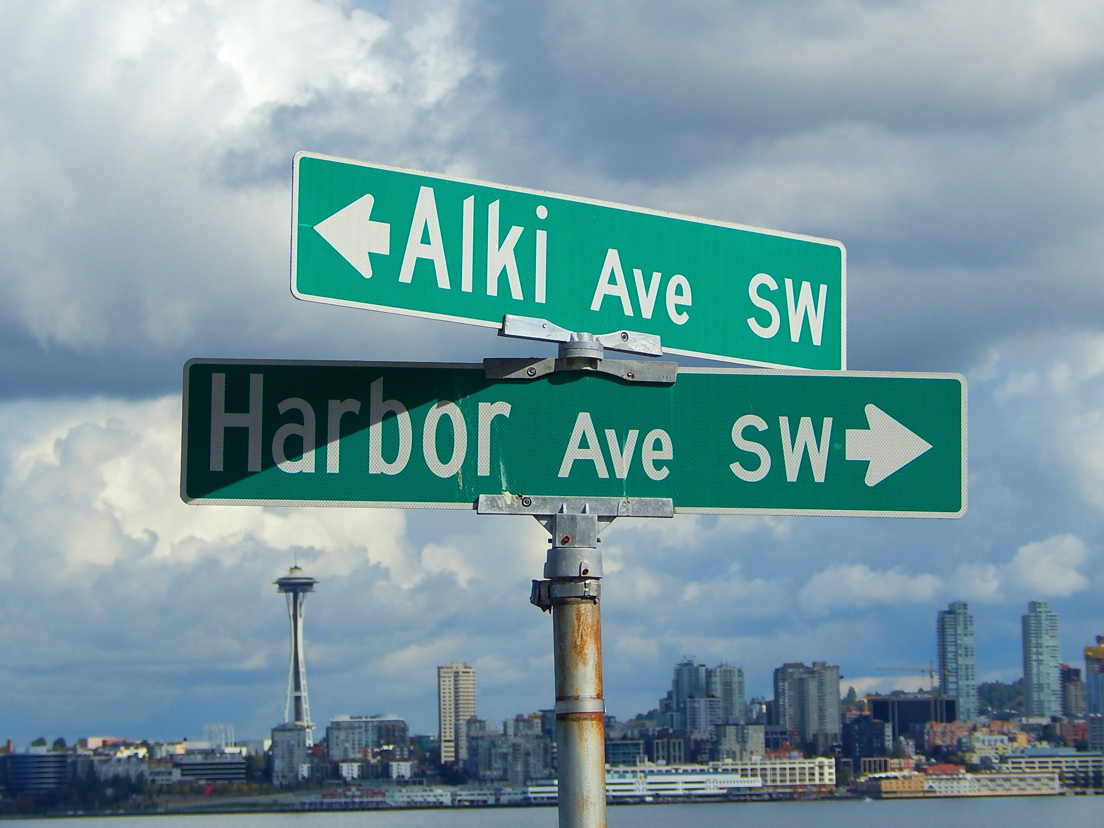 Alki Ave SW and Harbor Ave SW in West Seattle, WA